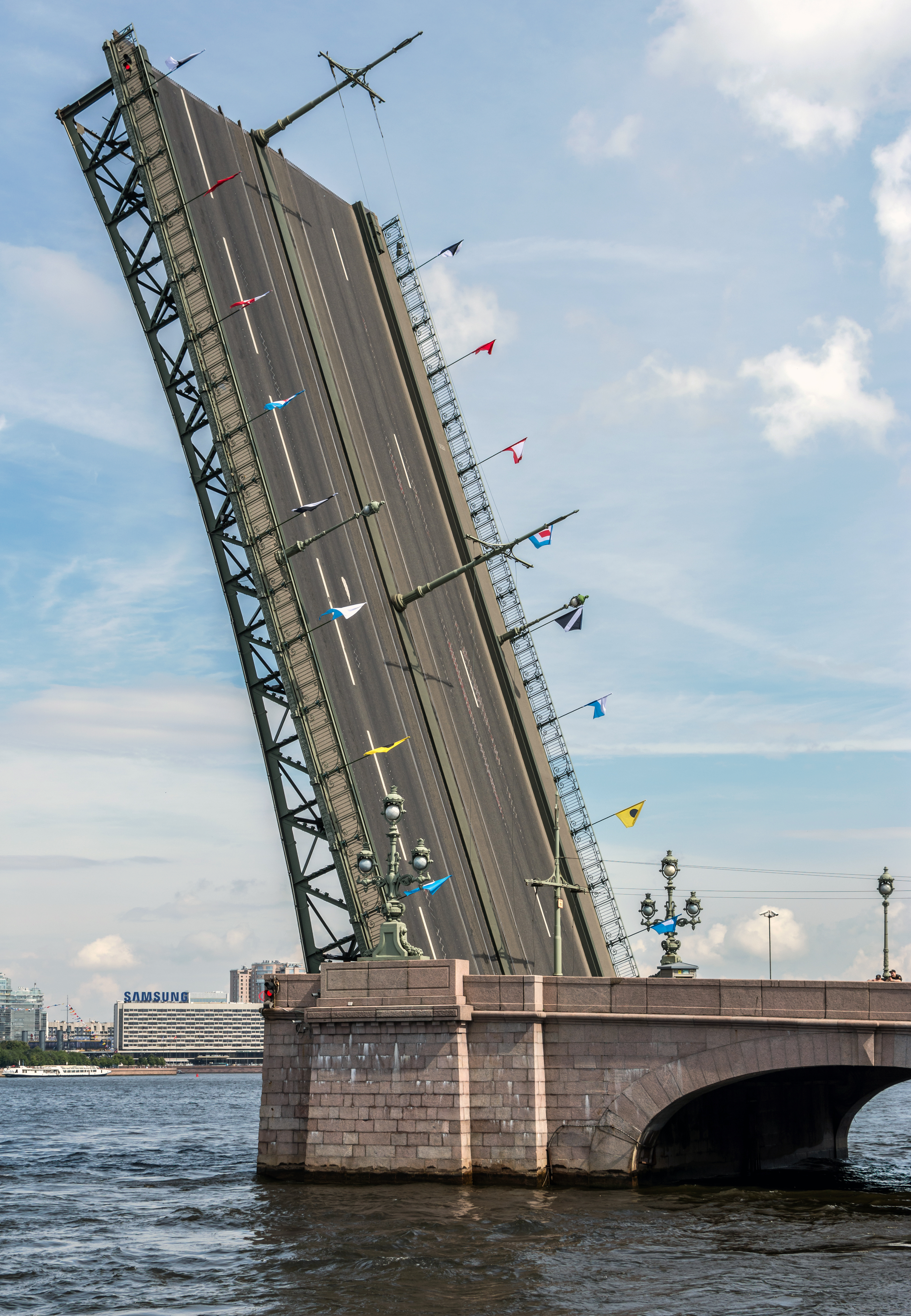 Raised Span of Trinity Bridge in Saint Petersburg